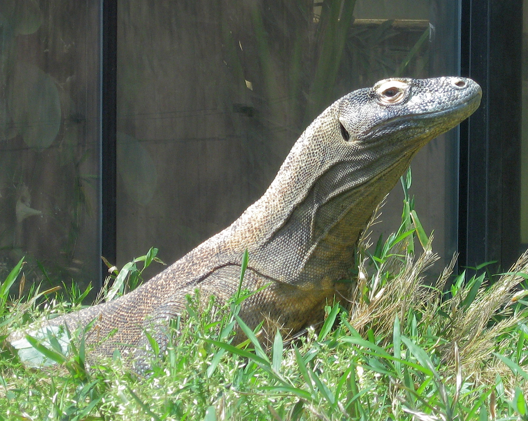 Komodo dragon in the Smithsonian National Zoological Park